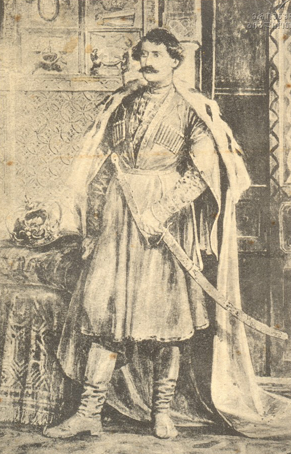 King Solomon II (Georgian: სოლომონ II) of Imereti